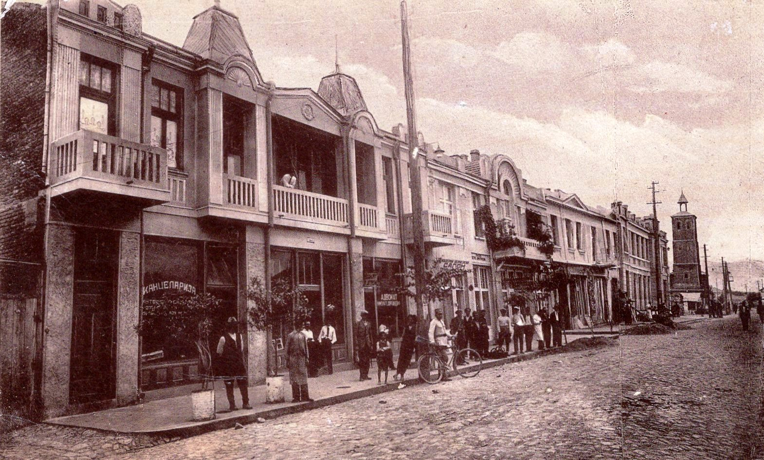 Postcard of Kumanovo, 1930's This media file is produced by Wikipedian in Residence in Category:Wikipedian in Residence at DARM in 2016.